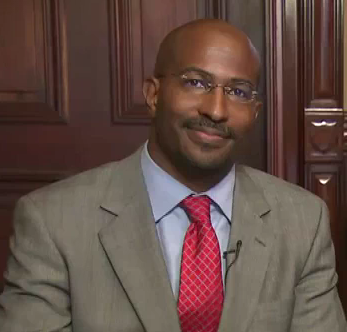 Van Jones, Special Advisor for Green Jobs, Enterprise and Innovation at the White House Council on Environmental Quality, takes questions from Facebook and the White House website about the Presidents unfolding vision for a clean energy economy.